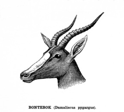 Drawing of Bontebok (Damaliscus pygargus), from "Records of Big Game", Rowland Ward